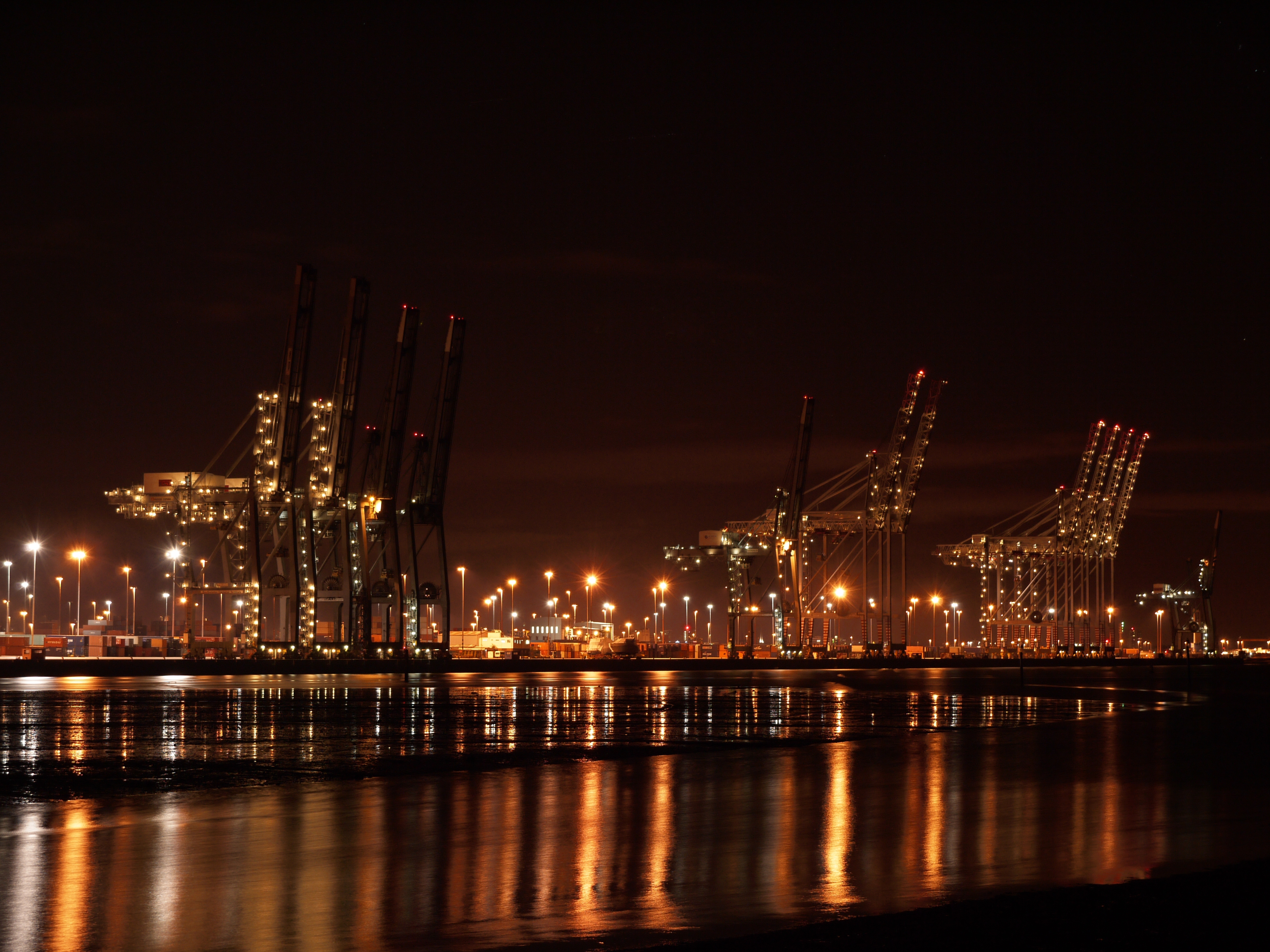 Photo of Southampton container port at night towards low tide